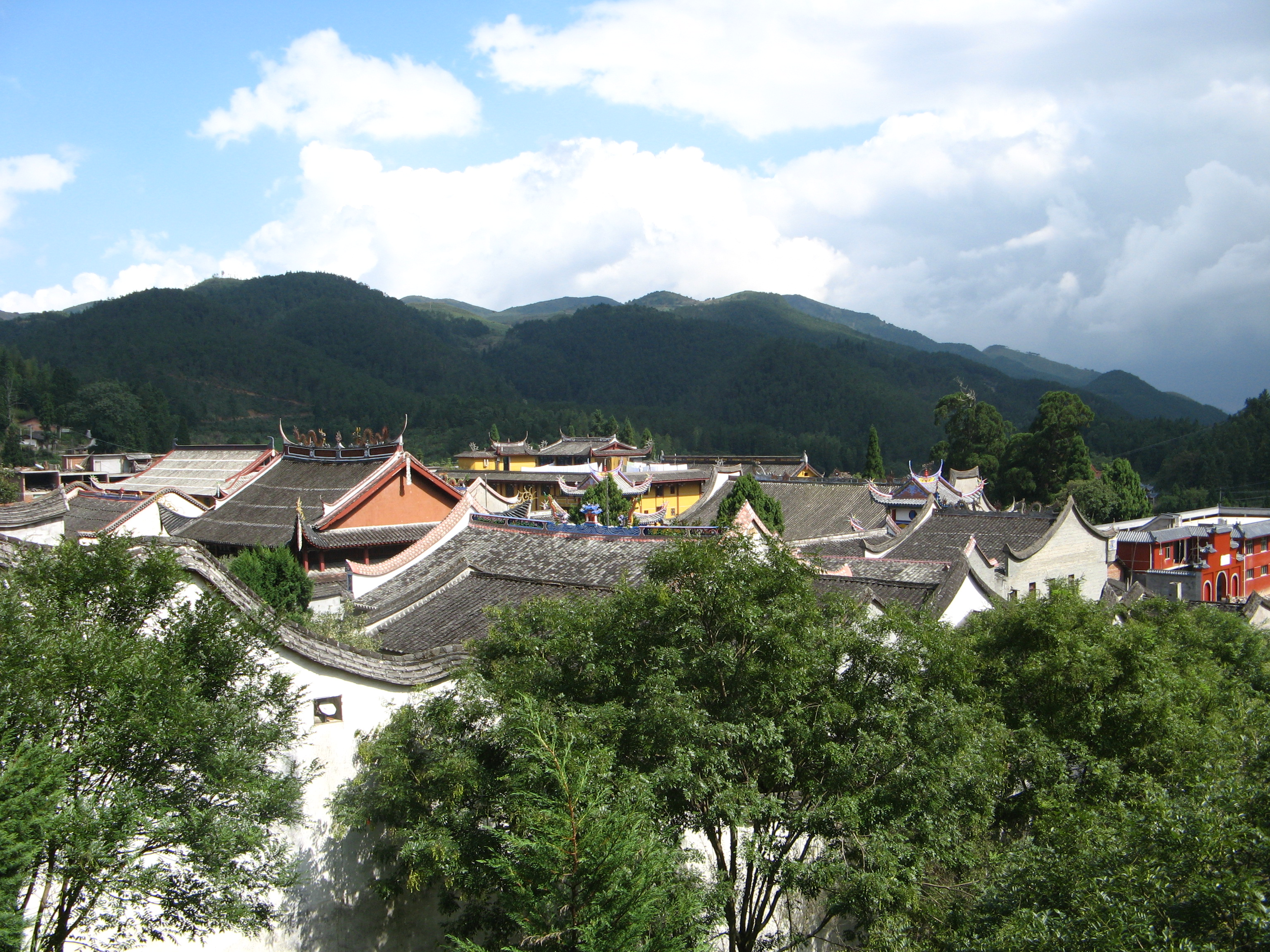 Building cluster in Xuefeng Temple, Minhou, Fuzhou